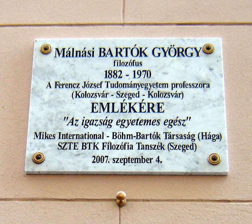 Memorial of György Málnási Bartók in Szeged